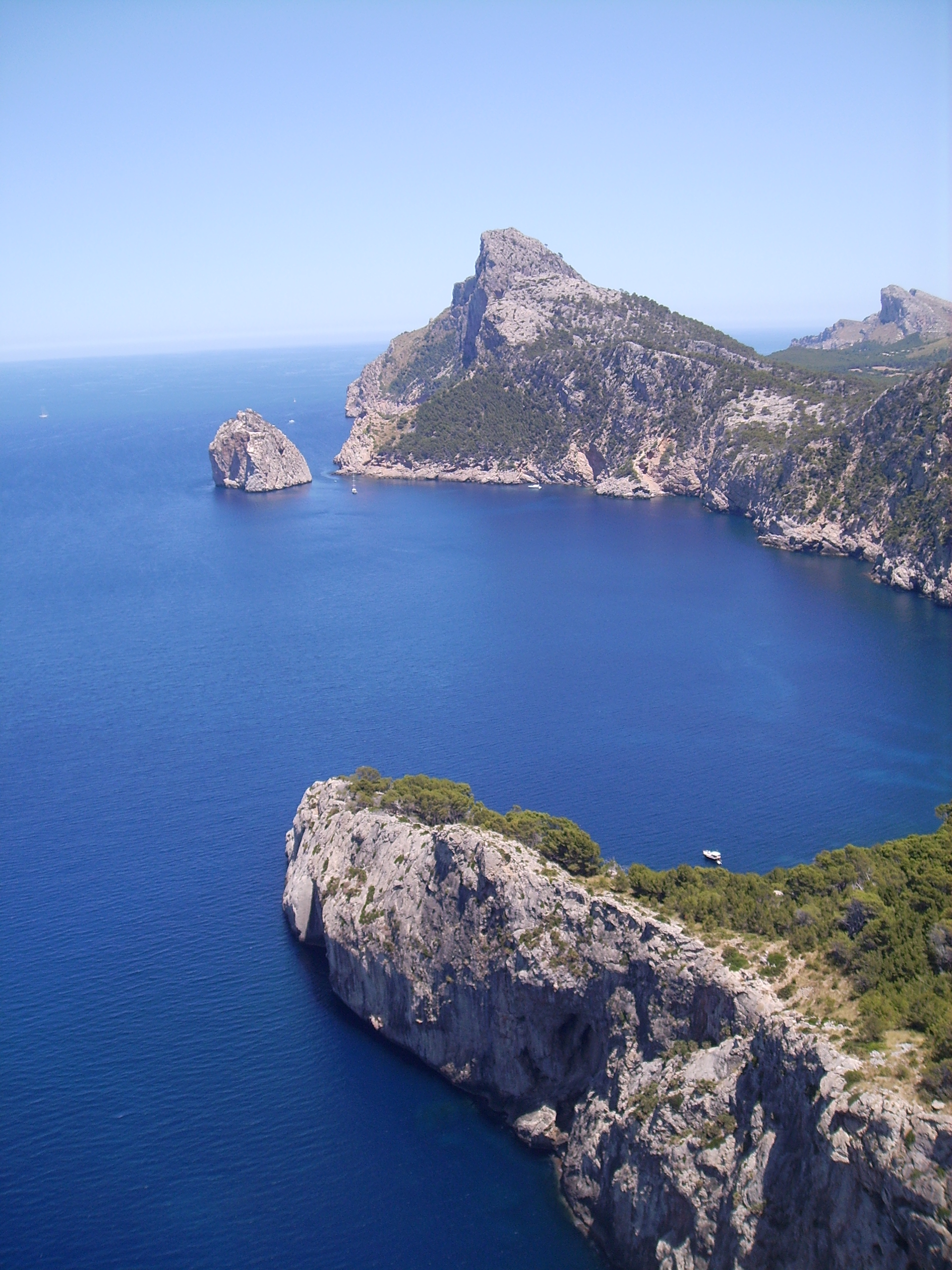 Sight of Formentor,Pollença, Mallorca, Spain